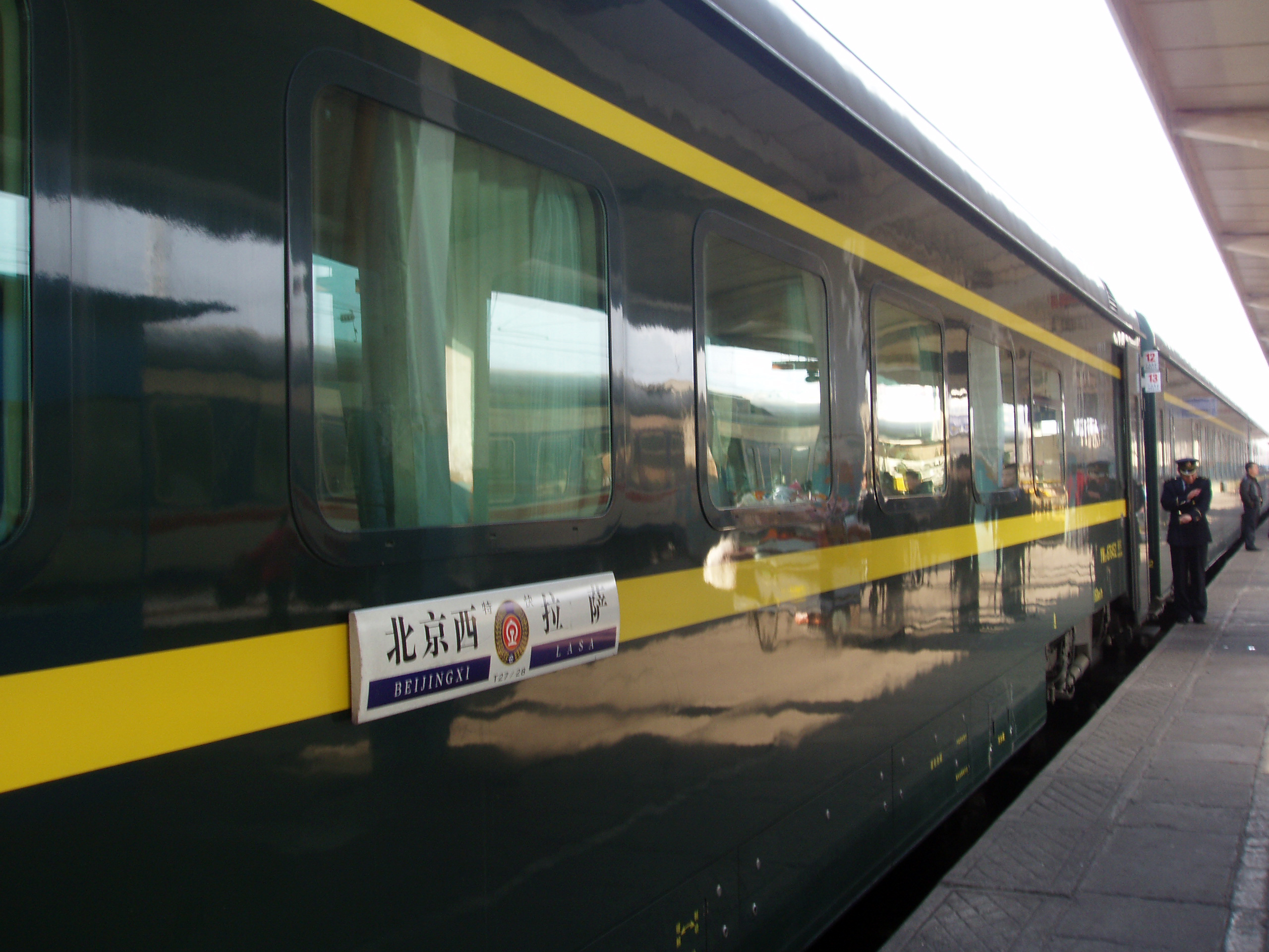 Beijing - Lhasa railway carriages with special anti pressure windows